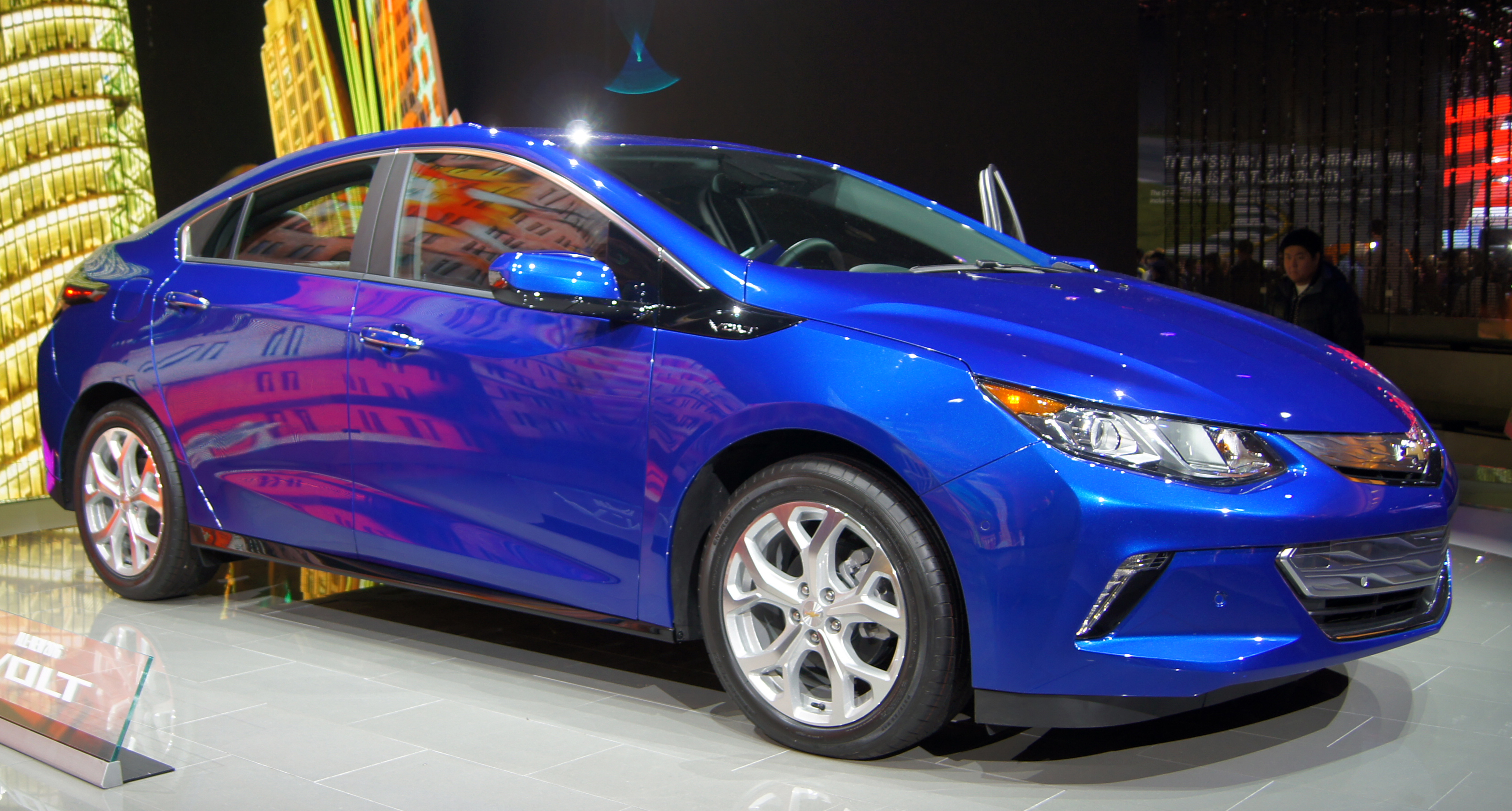 2016 Chevrolet Volt (second generation) unveiled at the January 2015 North American International Auto Show